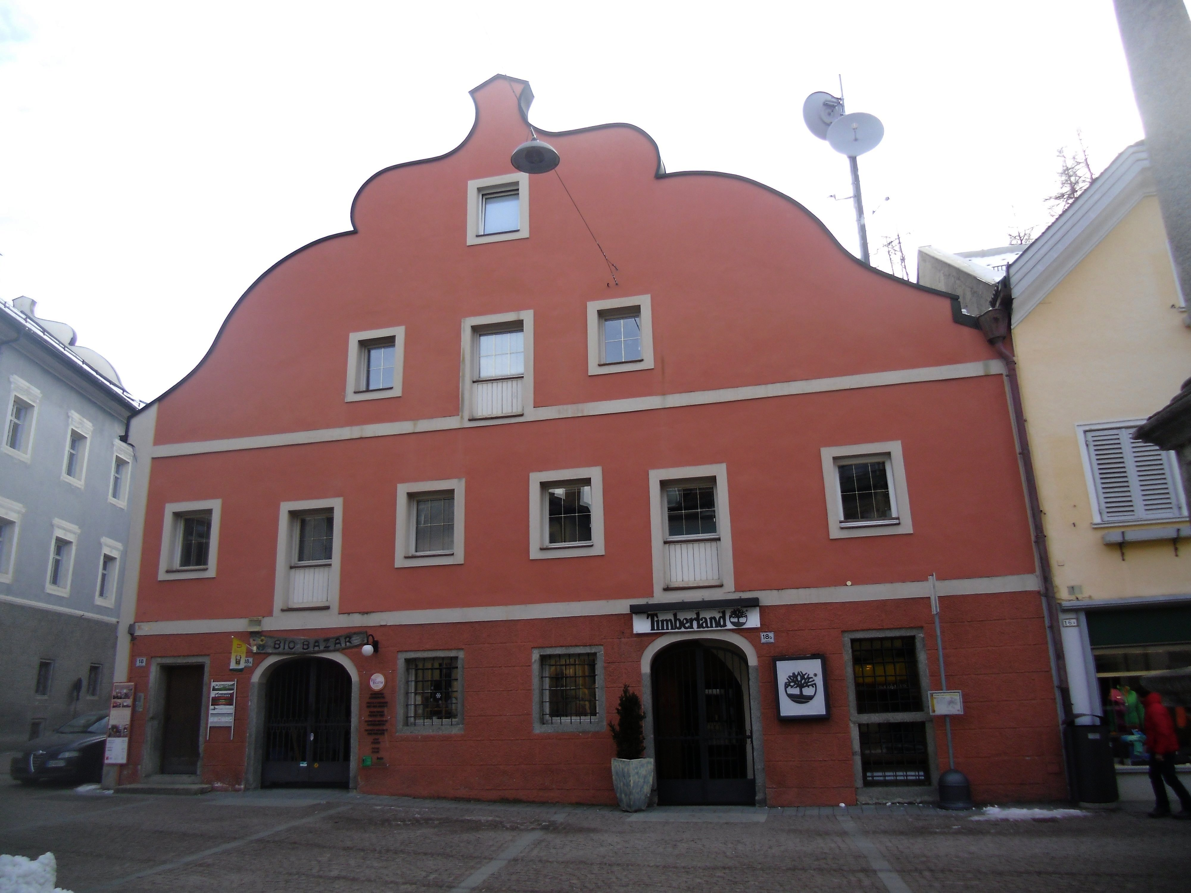 Oberragen 18